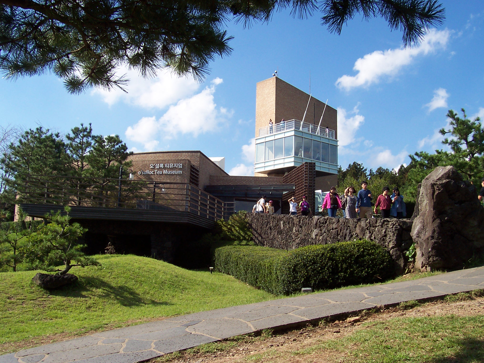 Jeju Tea Museum